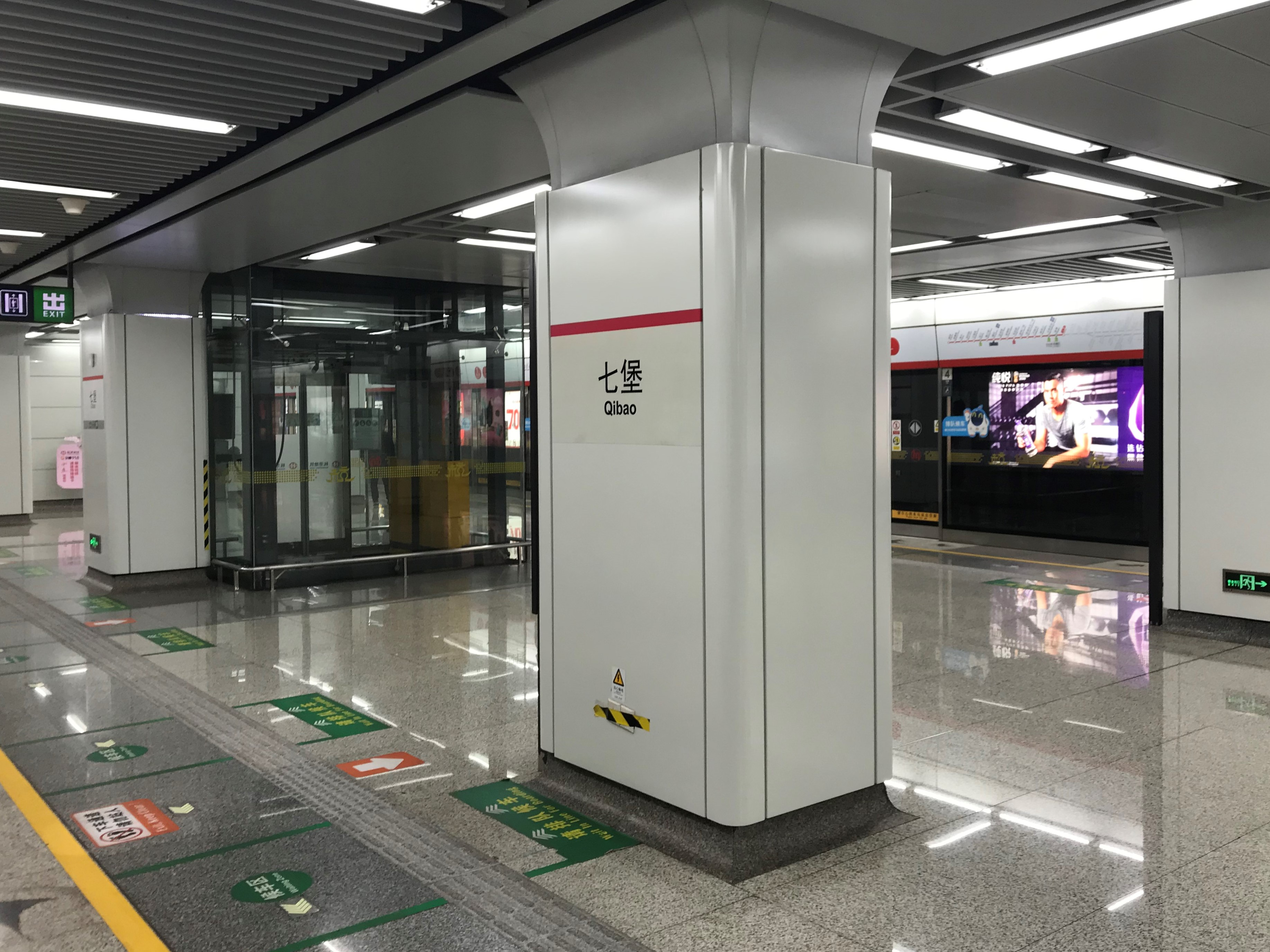 201806 Platforms at Qibao Station